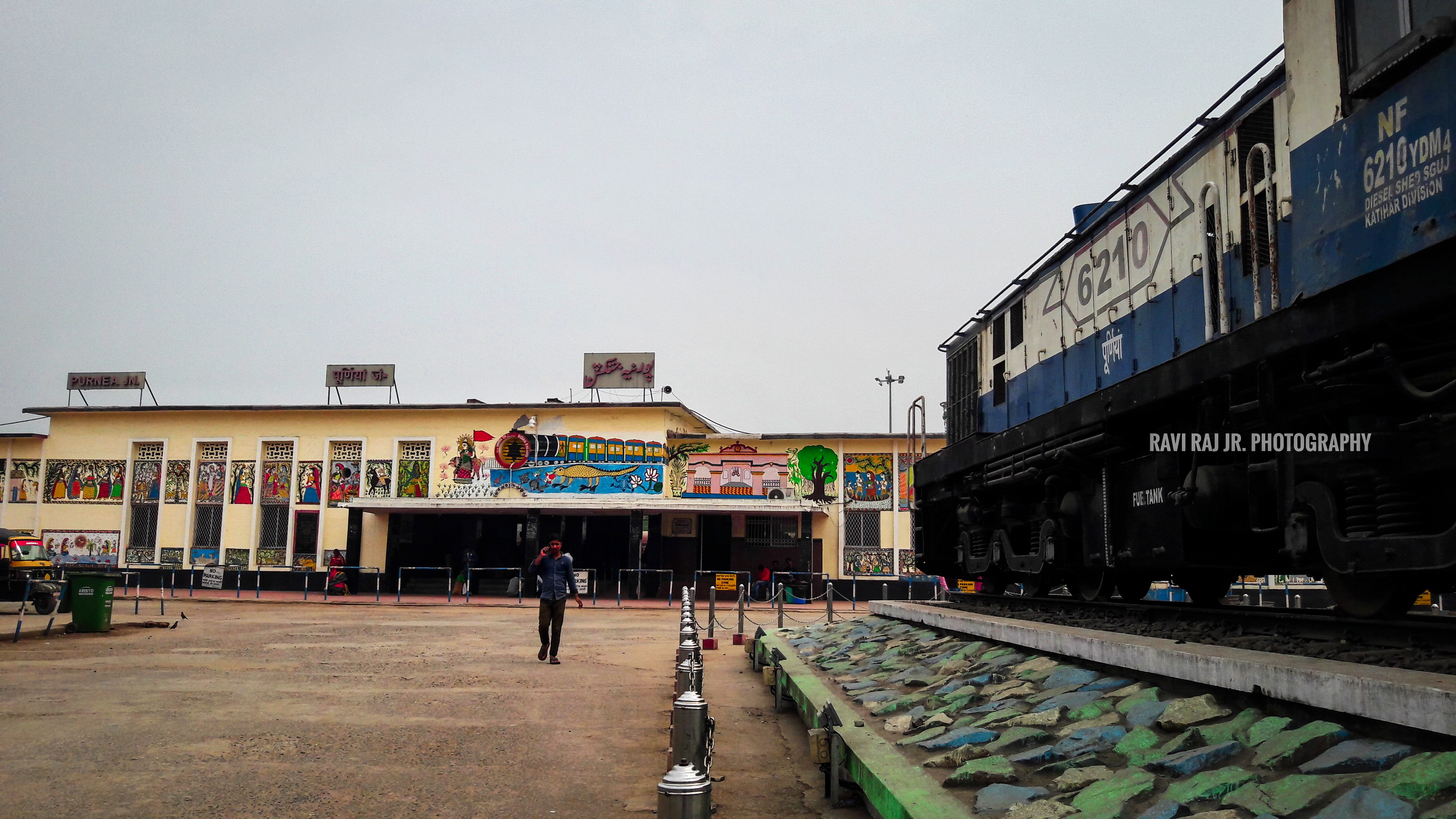 mithila painted station of Purnea NFR